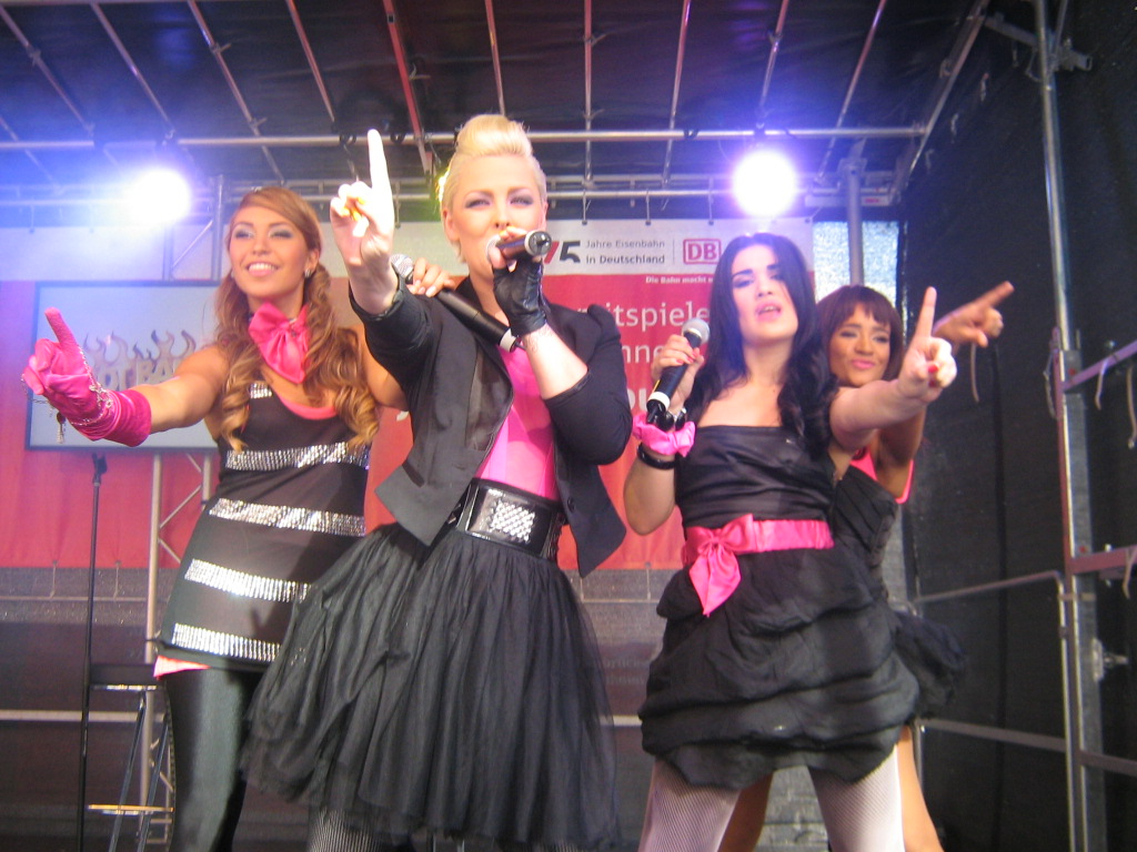 Queensberry